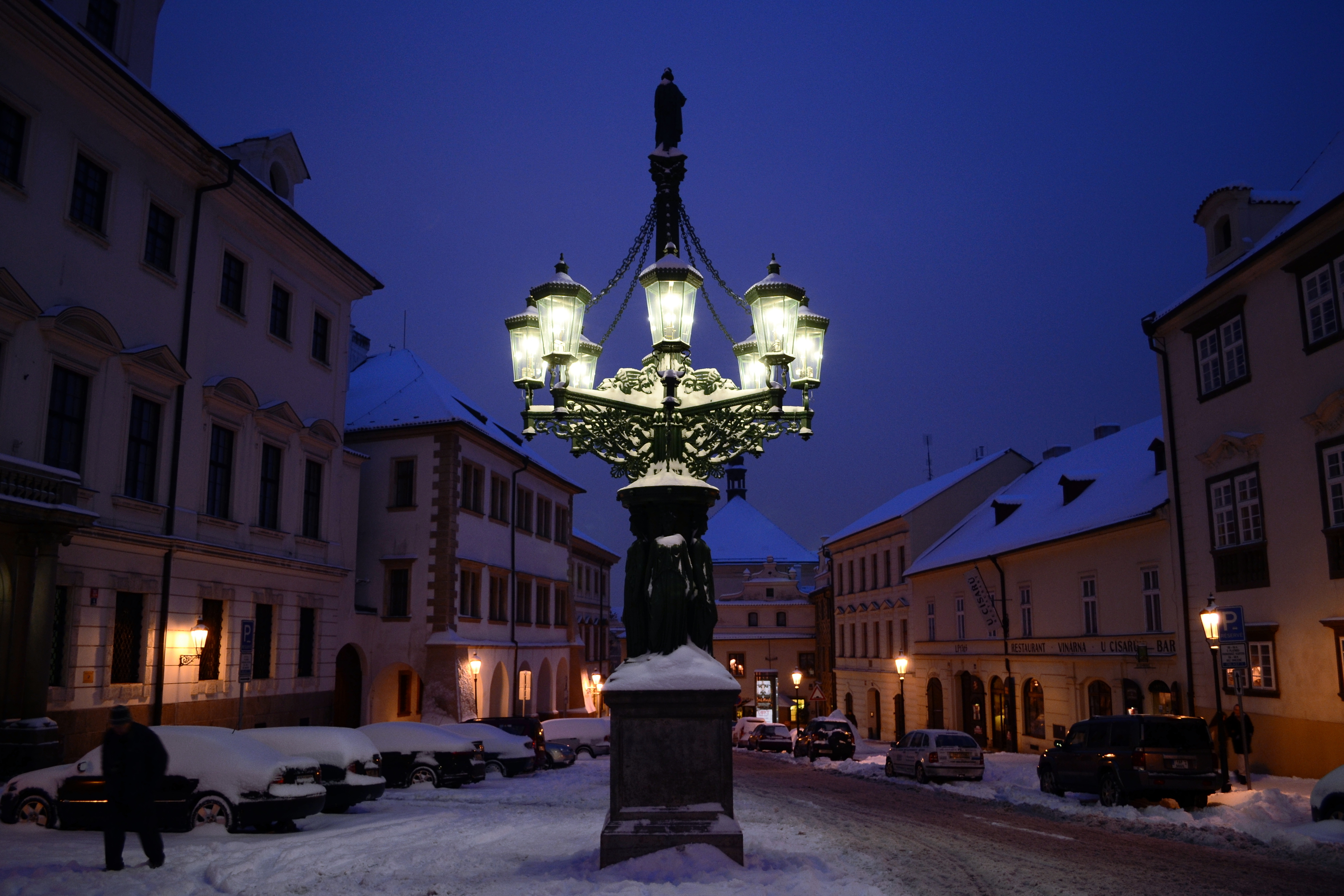 Gas lamp in Loretánská street at night. Prague 1, Czech Republic.